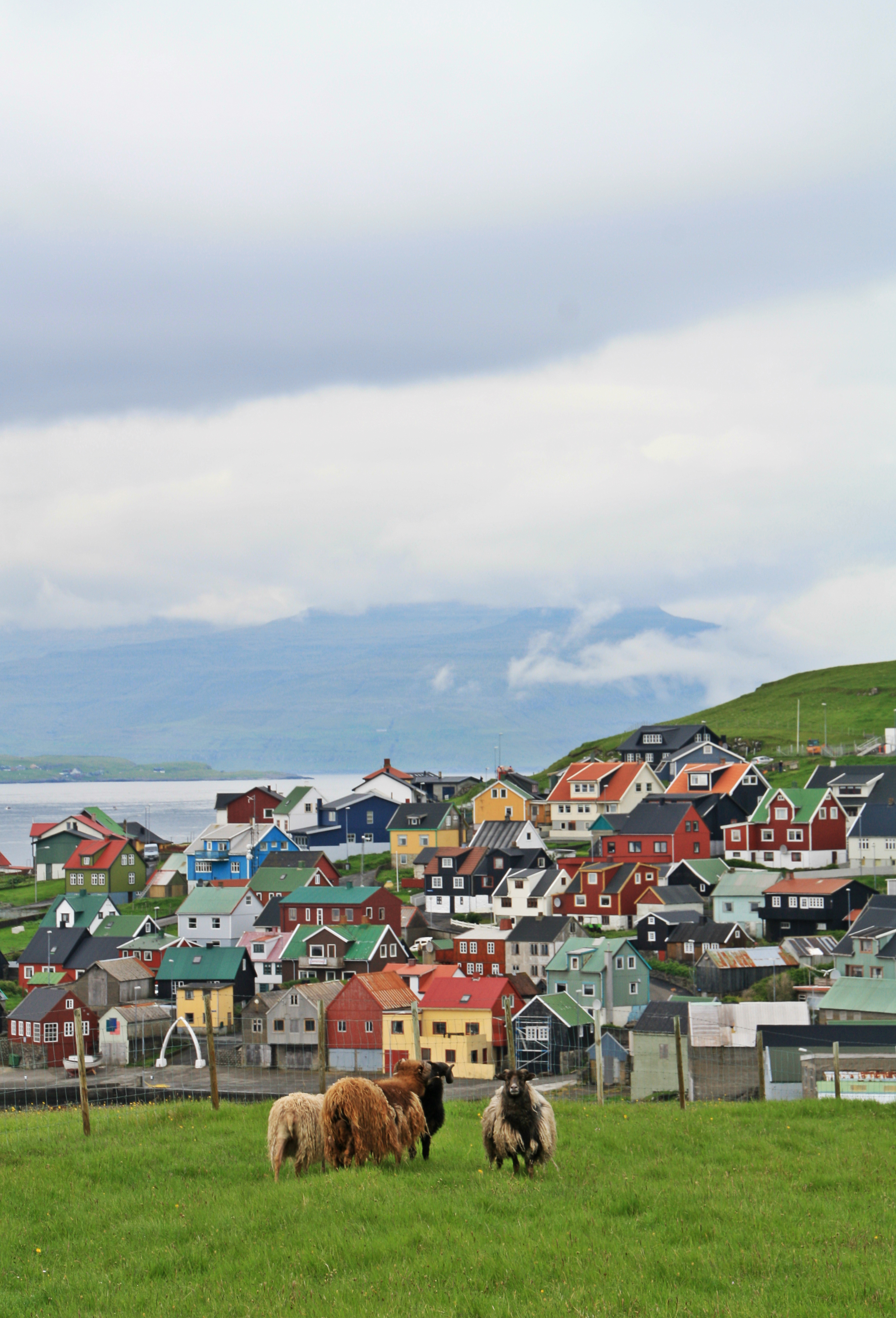 Nólsoy, Faroe Islands